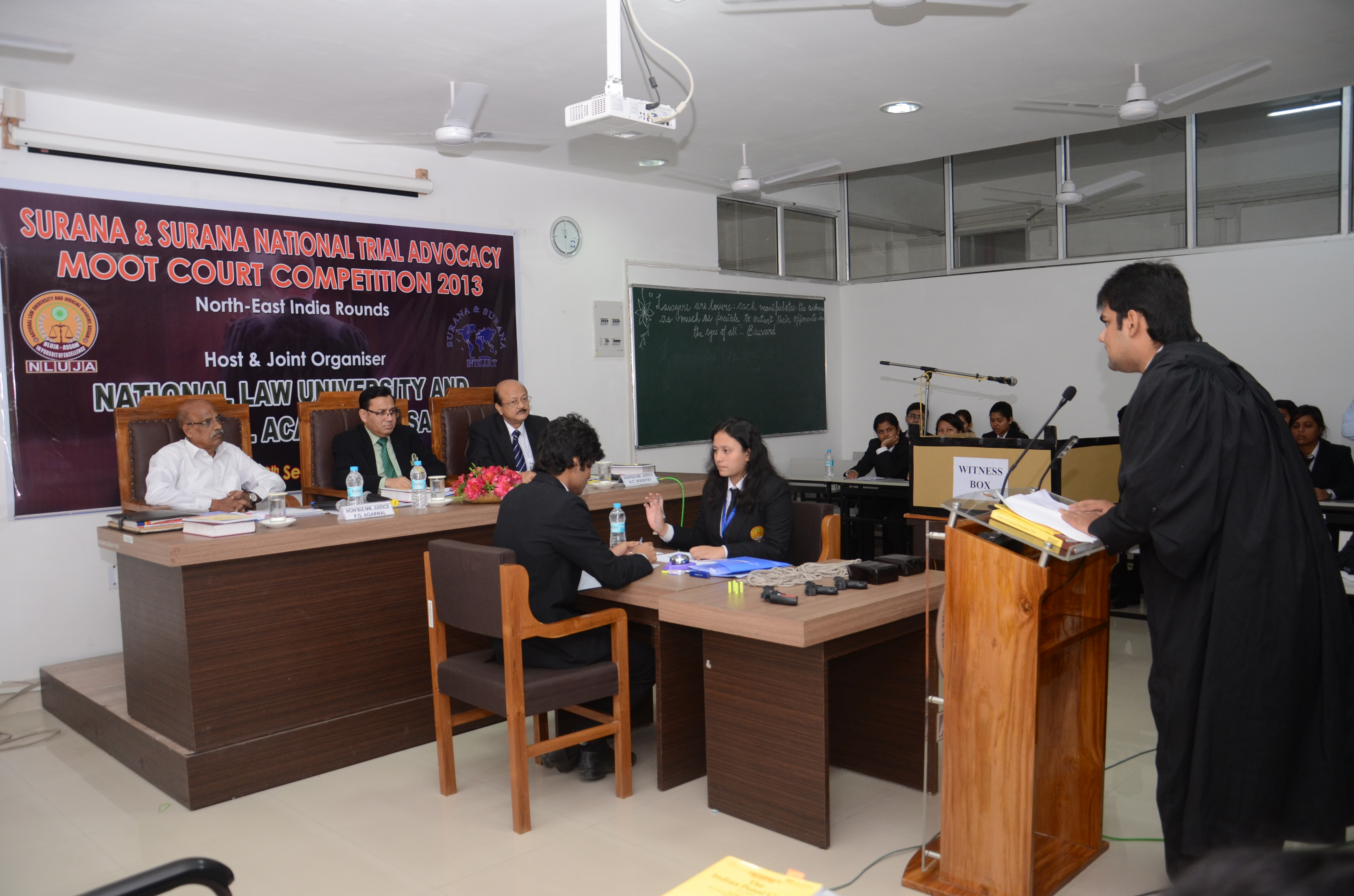 Justice A C Upadyay, Justice Iqbal Ahmed Ansari, Justice P G Aggarwal